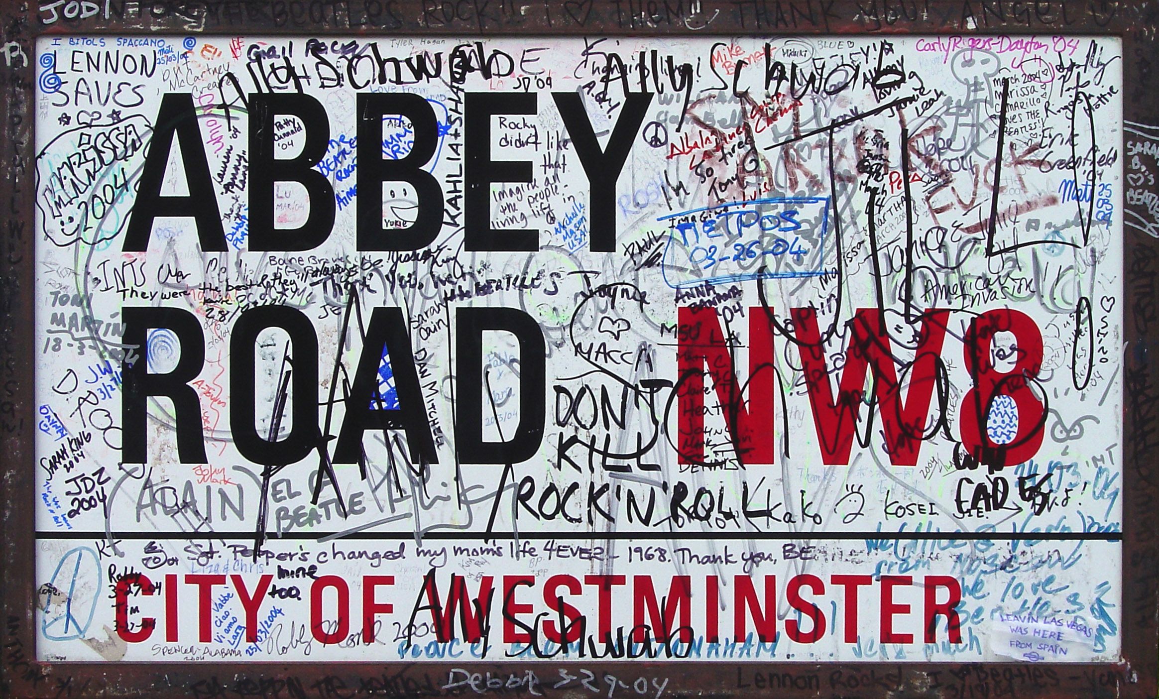 Abbey Road sign vandalized with full of graffiti